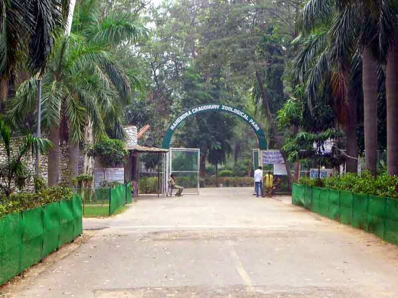 entrance